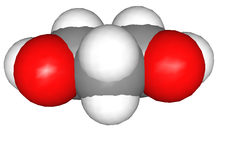 A space filling model of the molecule 1,3-Propanediol (CAS 504-63-2)